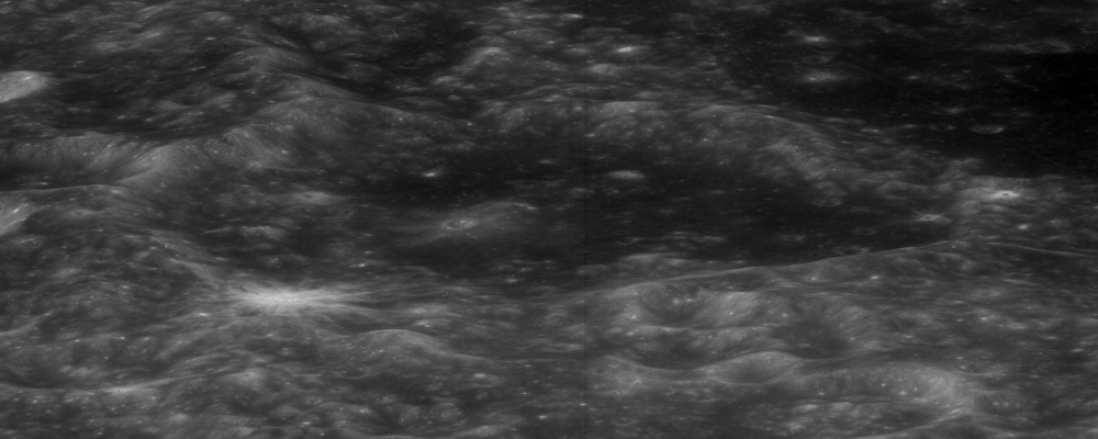 Oblique view facing south of Condon crater, on the moon.